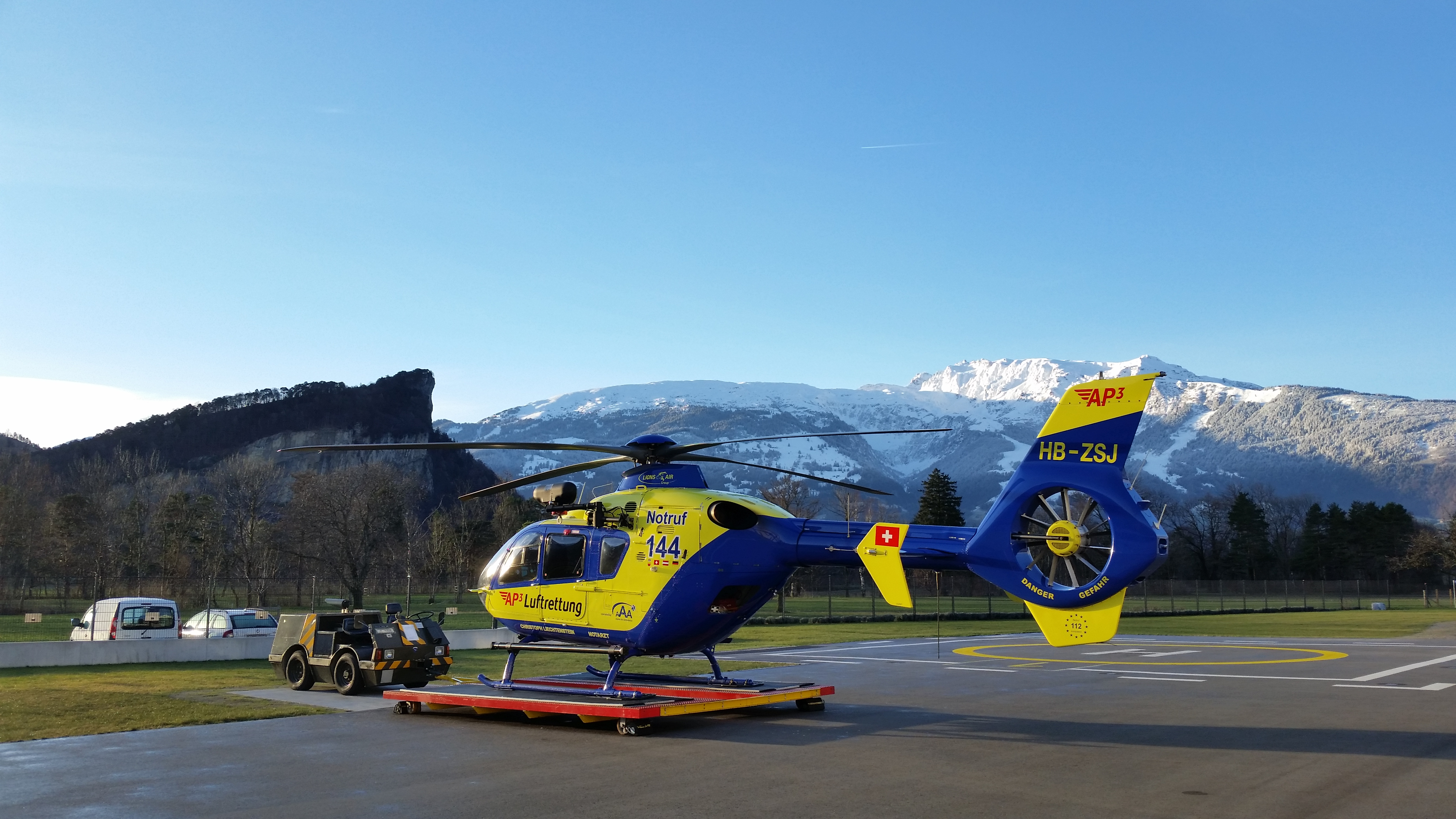 Rescue helicopter Christoph Liechtenstein